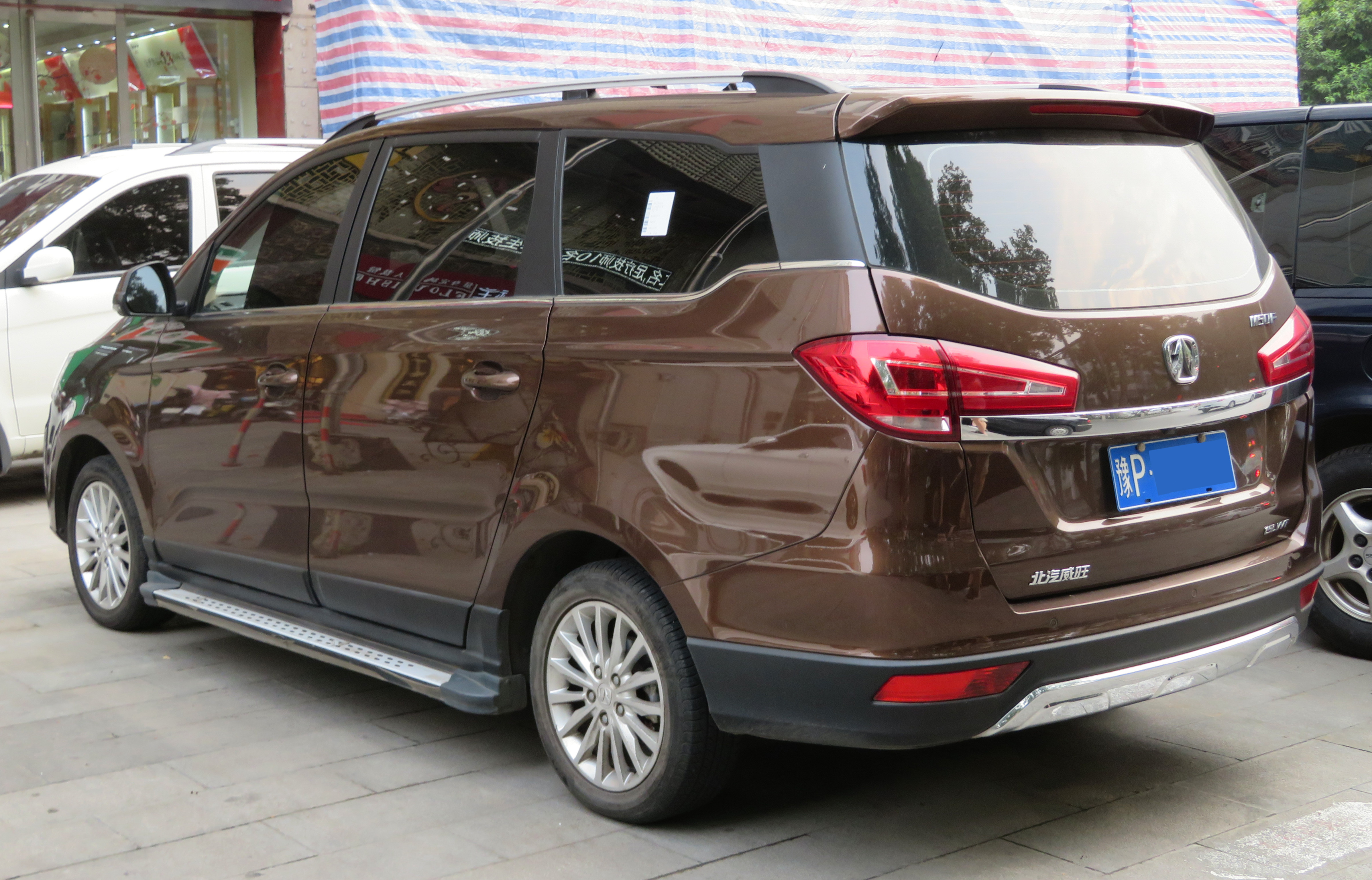 A 2017 BAIC Weiwang M50F photographed in Luoyang, Henan province, China